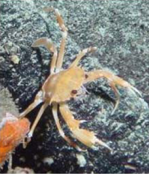 Bathynectes piperitus. Courtesy of Ifremer, France (Medeco-2 expedition).